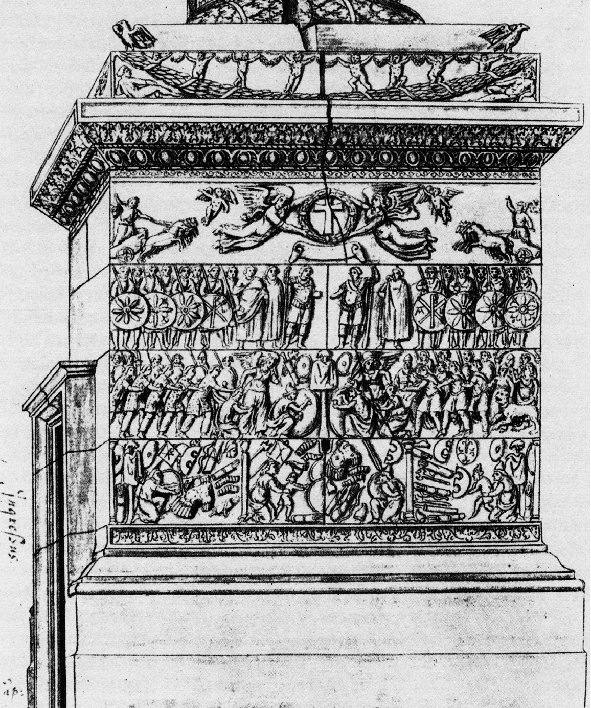 Column of Arcadius, Constantinople, drawing from the "Freshfield album"